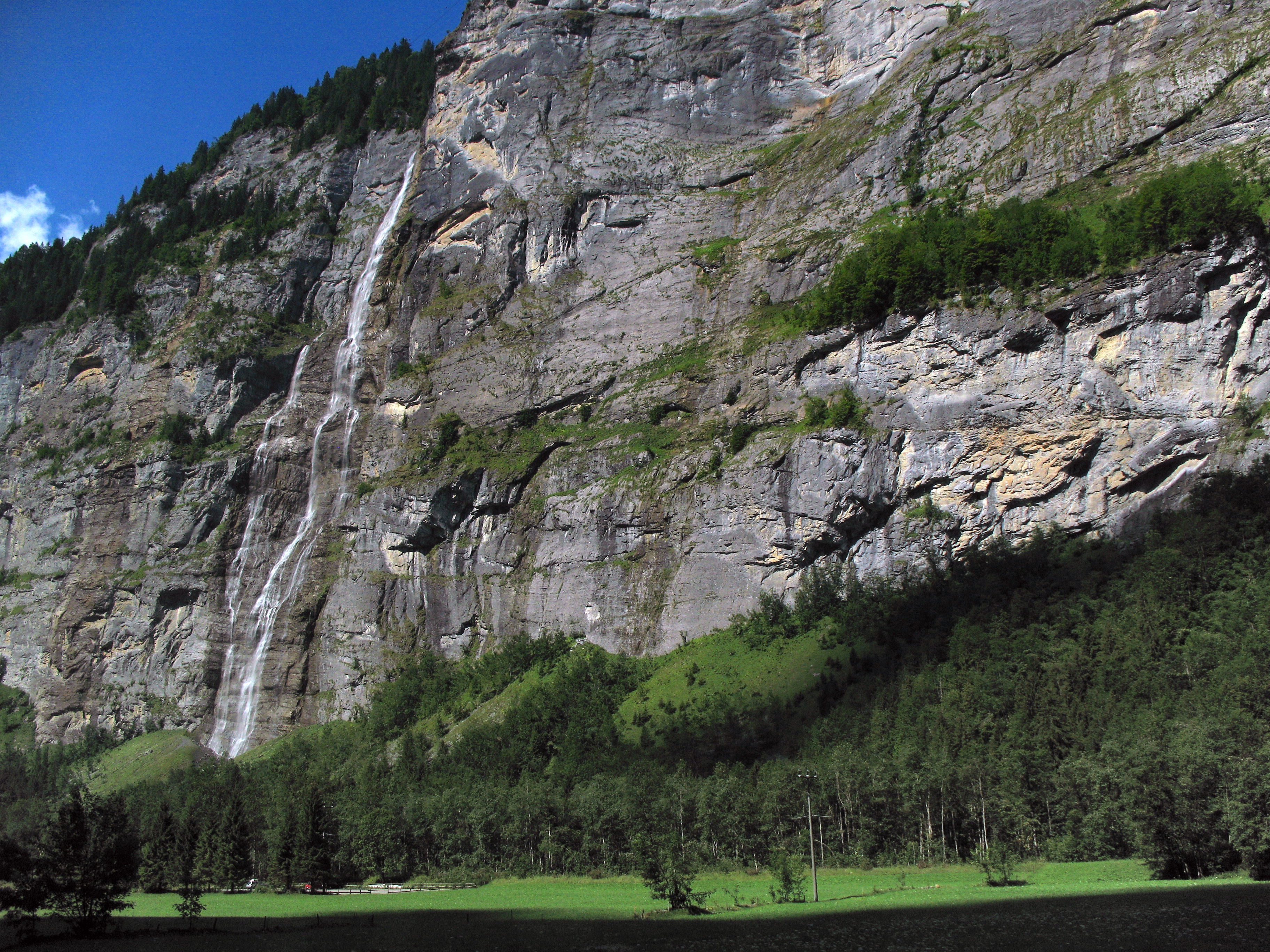 Waterfall viewed from Morgengabe, Lauterbrunnen Valley, Switzerland